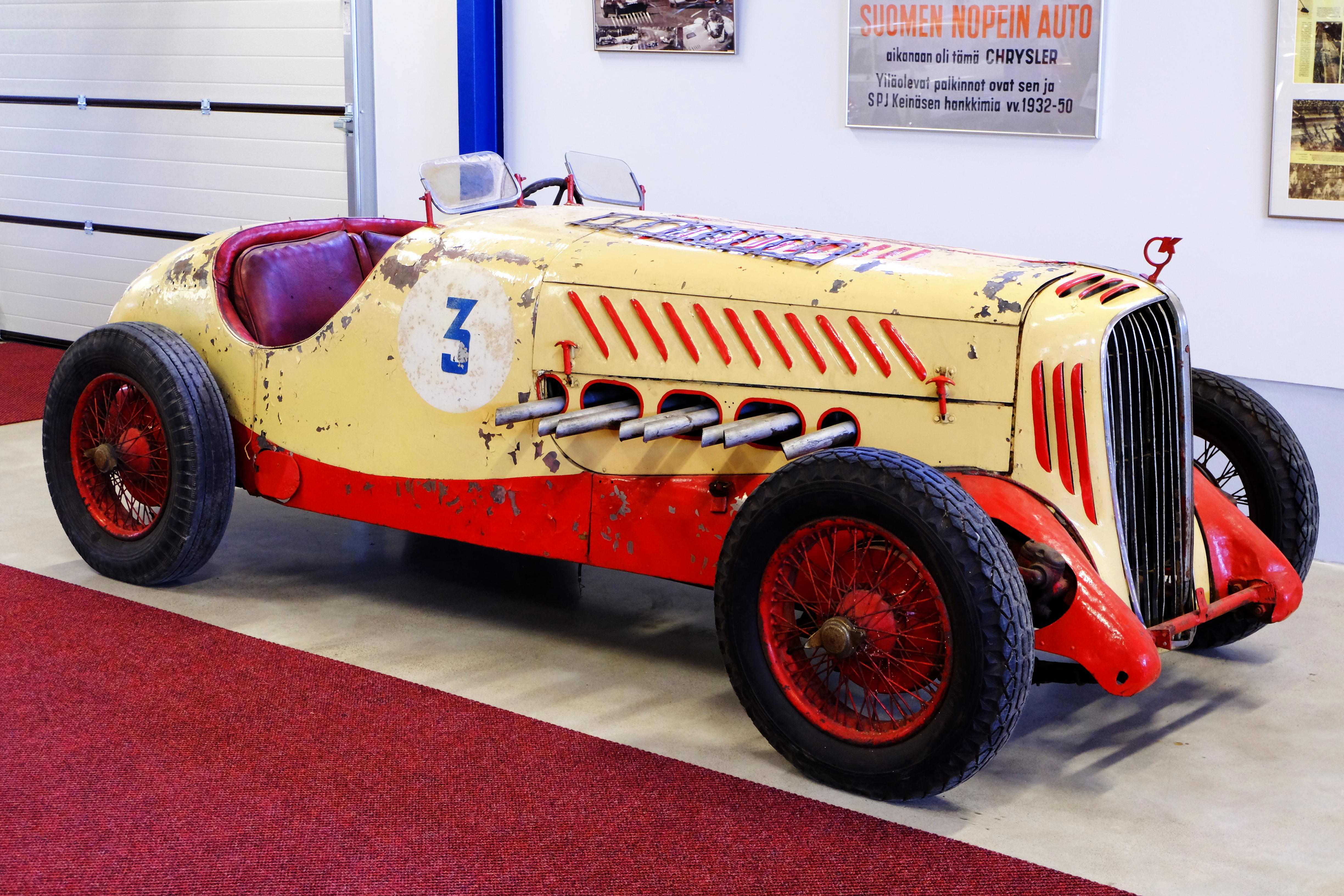 S.P.J. Keinänen's 1932 Chrysler Imperial is probably the most succesful single car in Finnish racing history. Ex-Indy car competed in different classes from 1933 to 1950, winning the famed Eläintarhan ajot twice. The car, which had suffered a total engine failure in the practice of 1950 Eläintarhan ajot, was repaired to driving condition in 2014.